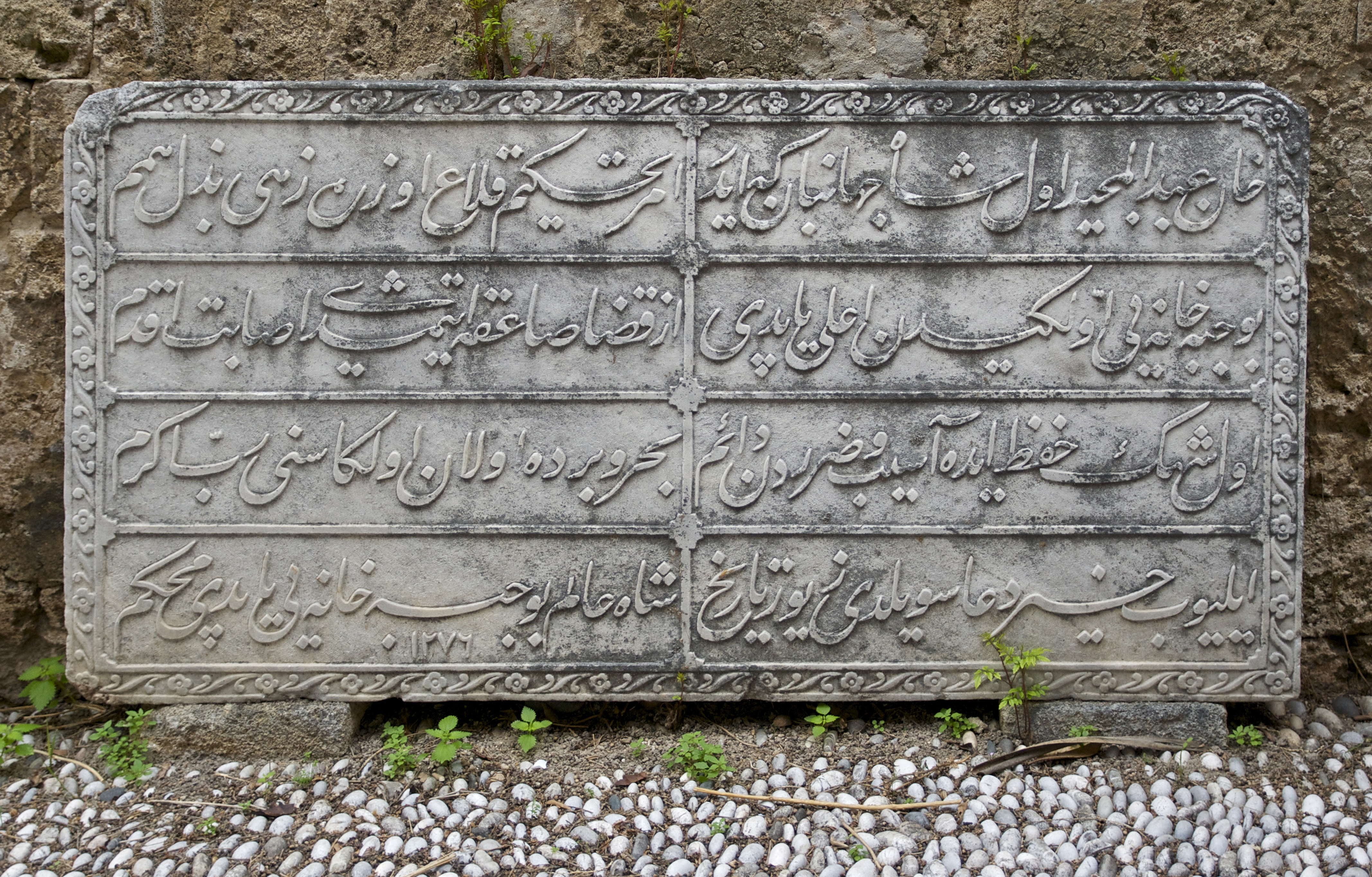 An engraved ottoman tombstone.